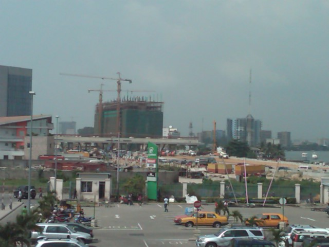 A site of newly constructed toll gates and roads at Lekki-Ẹpẹ Expressway, just between Victoria Island Annex and Lekki; in Lagos, Nigeria. Civil works by Lebanese-owned Hitech.